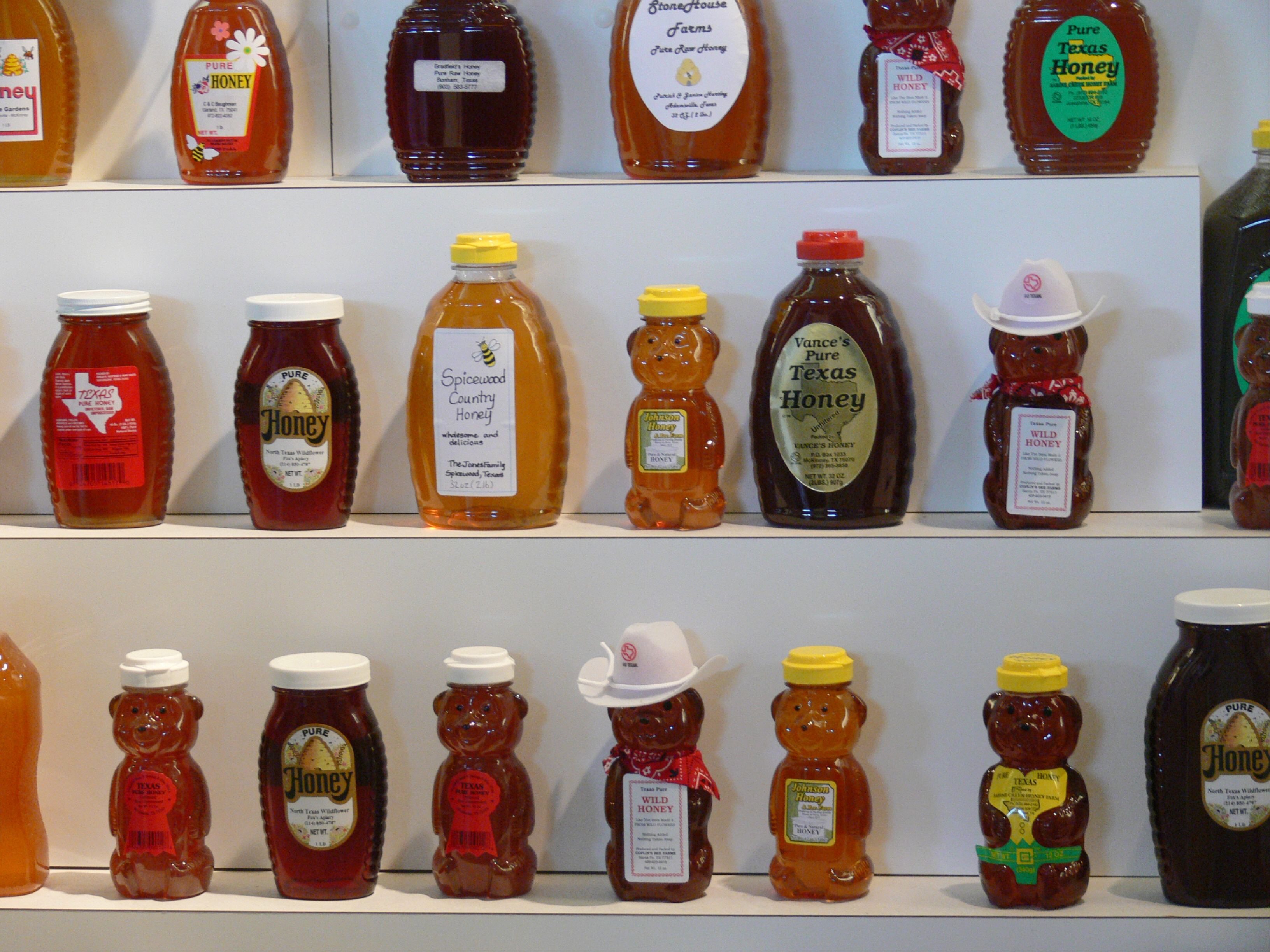 State Fair of Texas 2008, at Fair Park, Dallas, Texas Honey from Texas